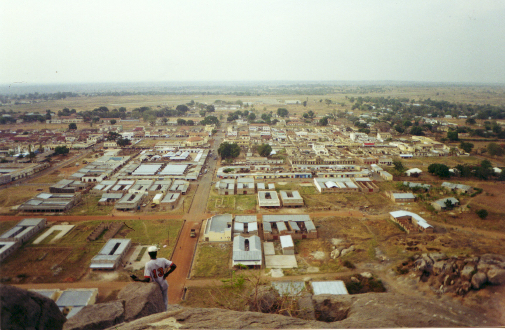 The picture haven't been uploaded to the Commons, only to the English Wikipedia. The author pronounced to public domain, so I share it on Commons.